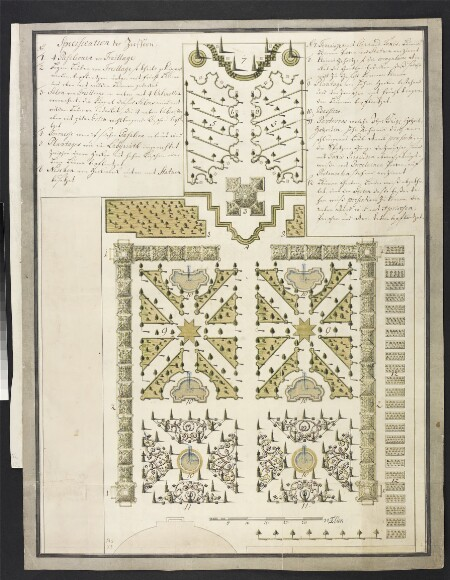 Plan of the garden behind Prinsens Palæ in Copenhagen, Denmark